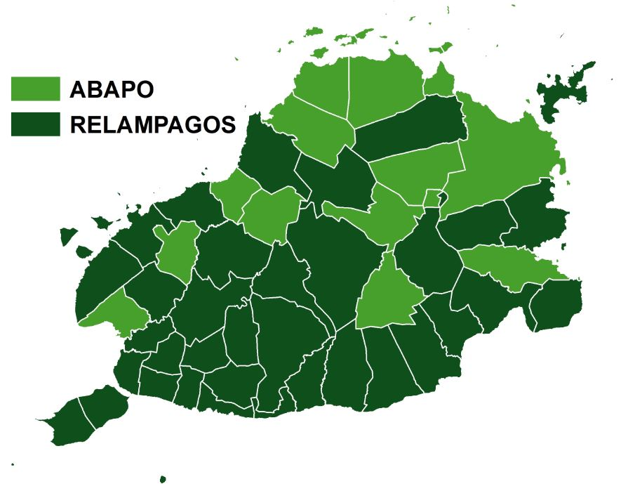 Map showing the official results taken from city and municipal certificates of canvass for Bohol vice-gubernatorial race 2019.